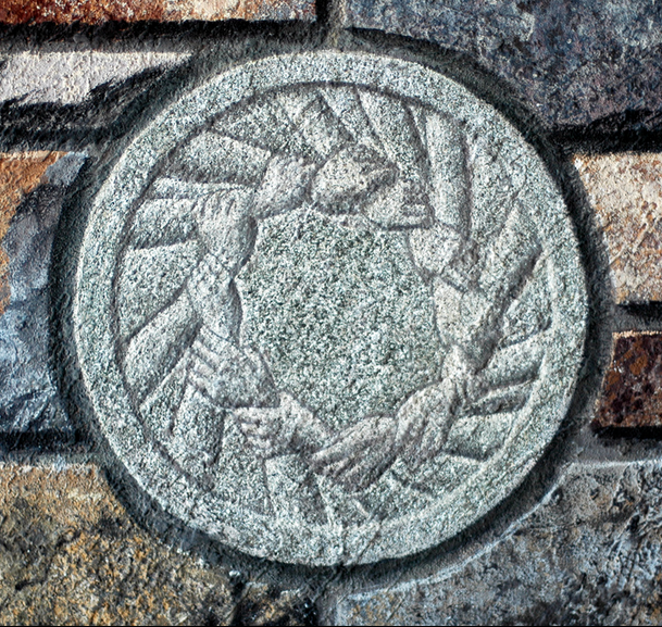 Connecting hands of restorative justice. A symbol within the Community Bridge.